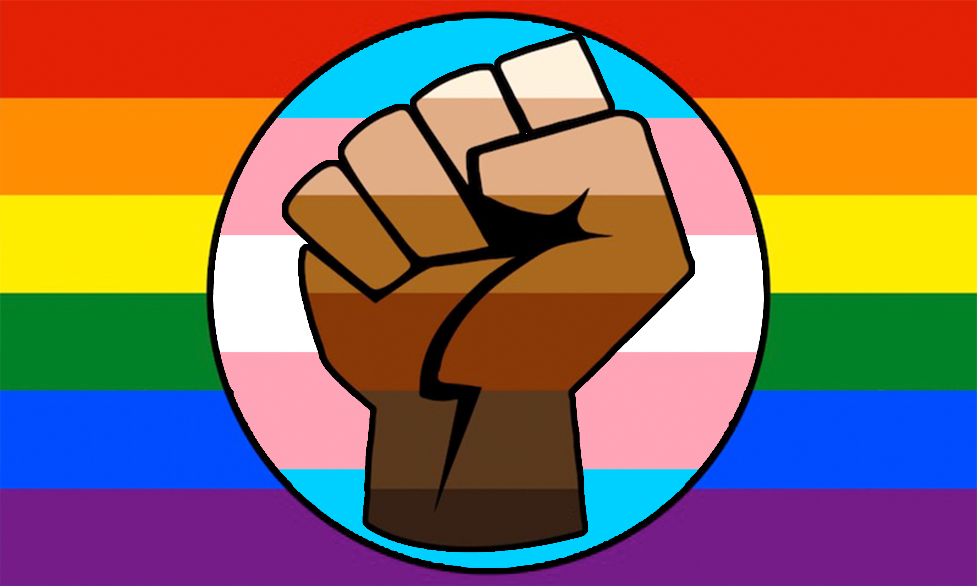 Flag of gay and trans pride in solidarity with Black Lives Matter